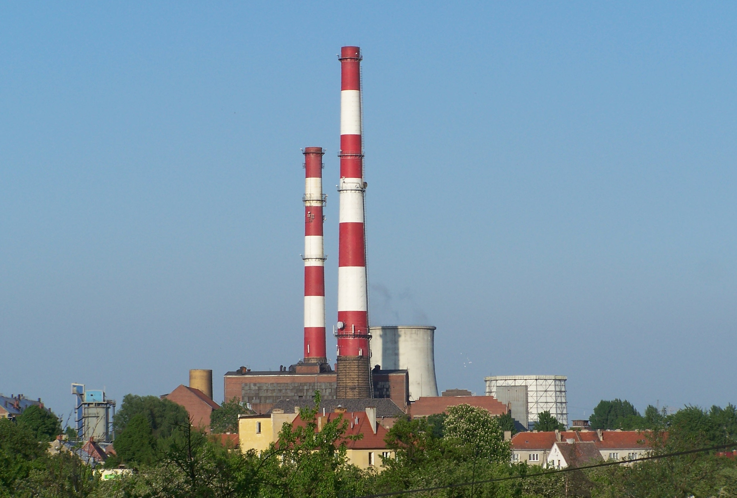 CHP power station "Czechnica" in Siechnice (PL)